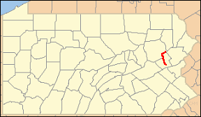 Map of Lehigh Gorge State Park created by Dincher from Pennsylvania Locator Map created by Ruhrfisch.